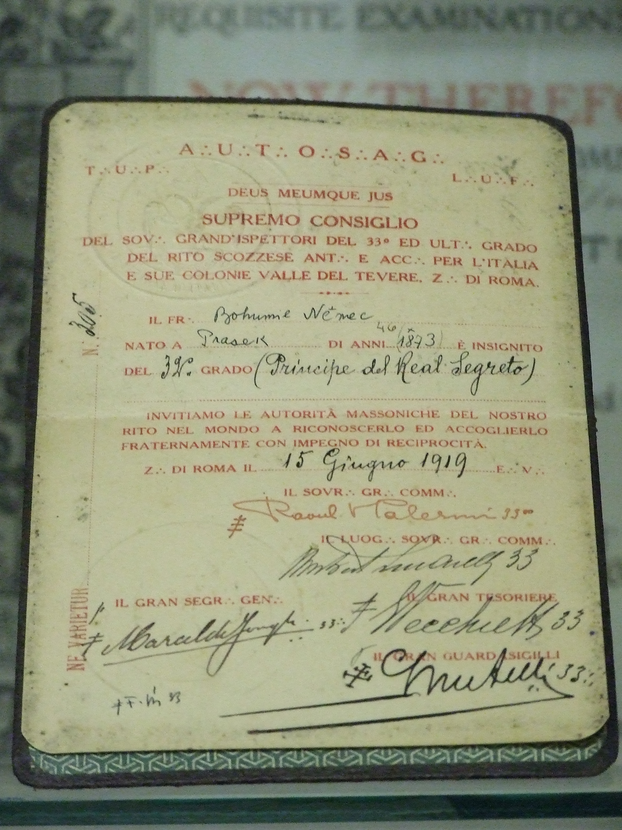 An identity card of a Member of Senate and Member of Parliament of Bohumil Němec, 1920s-1930s. The Republic exhibition, National Museum in Prague